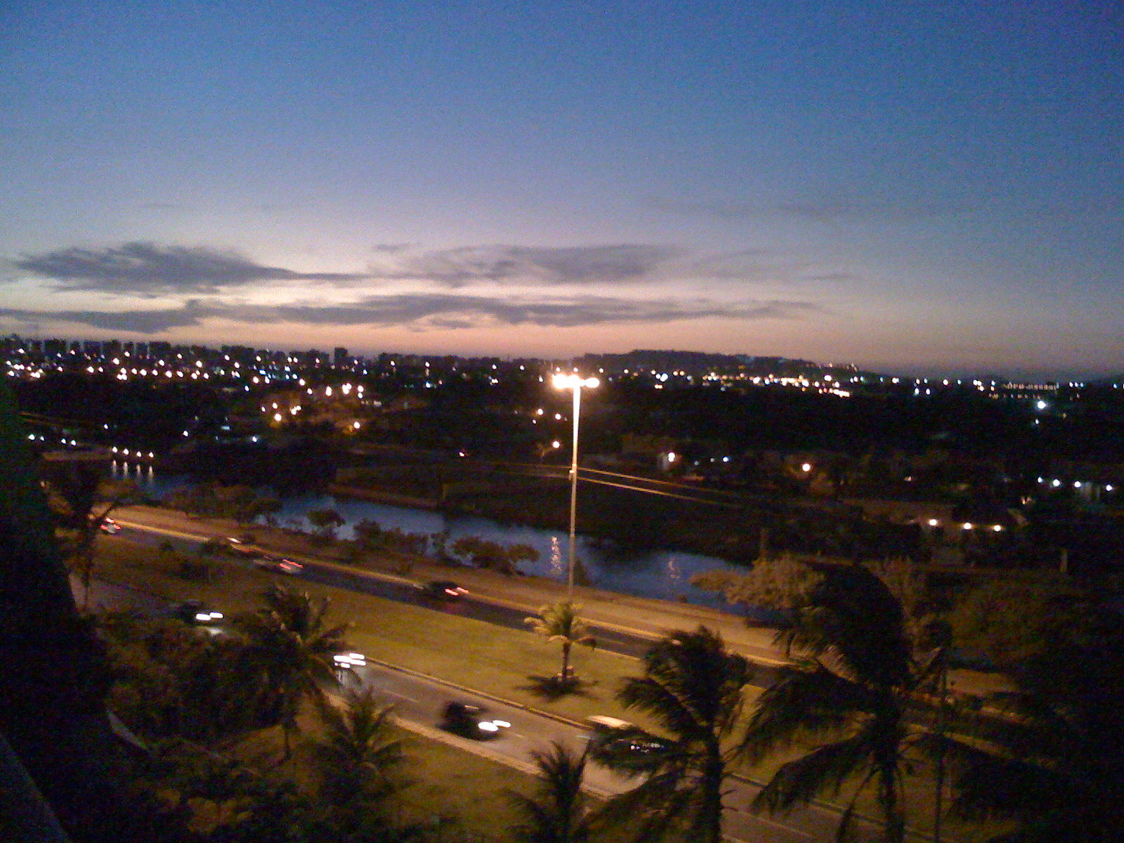 atardecer en la ciudad de Lecheria - Anzoategui